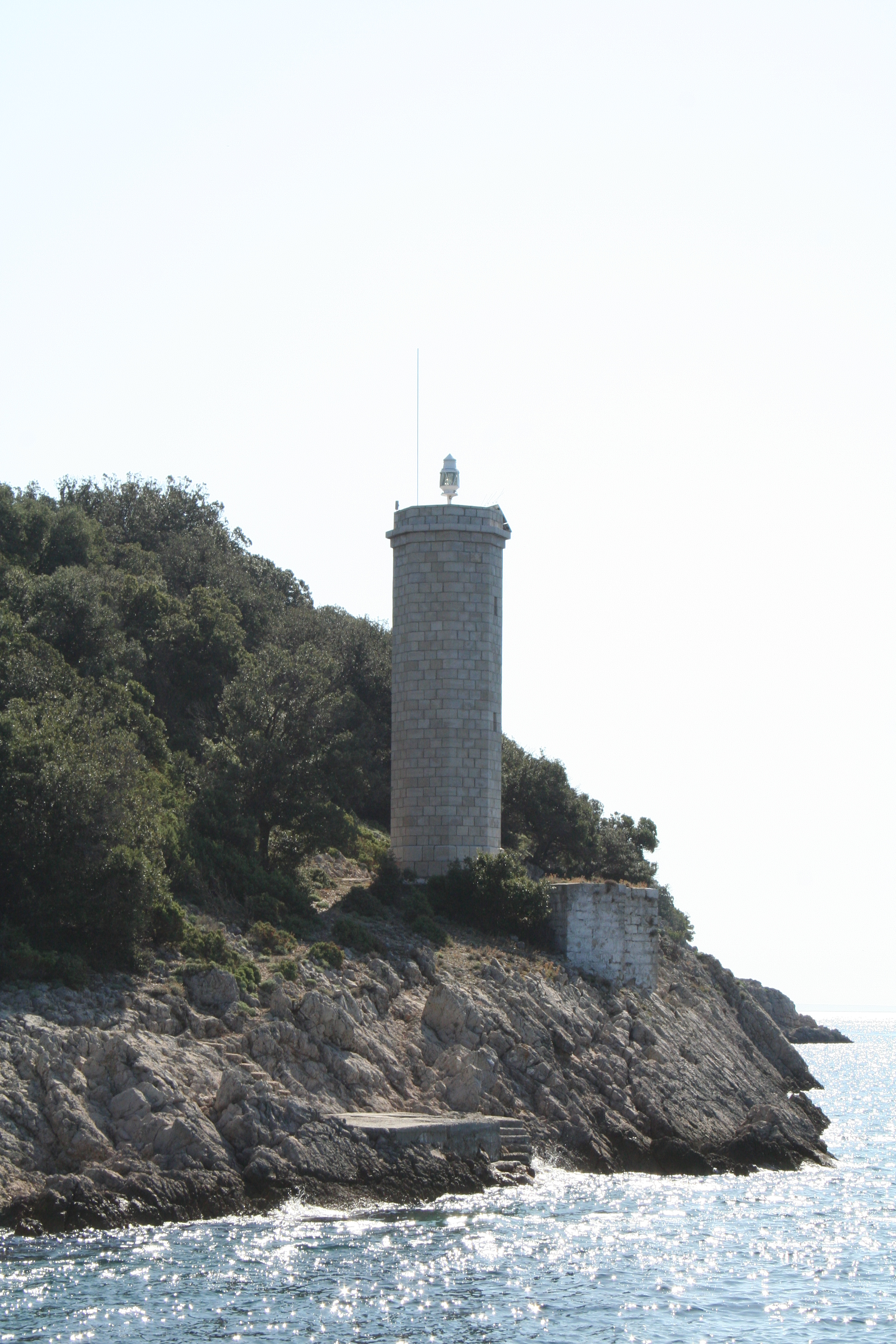 Lighthouse at the Island of Plavnik, Croatia